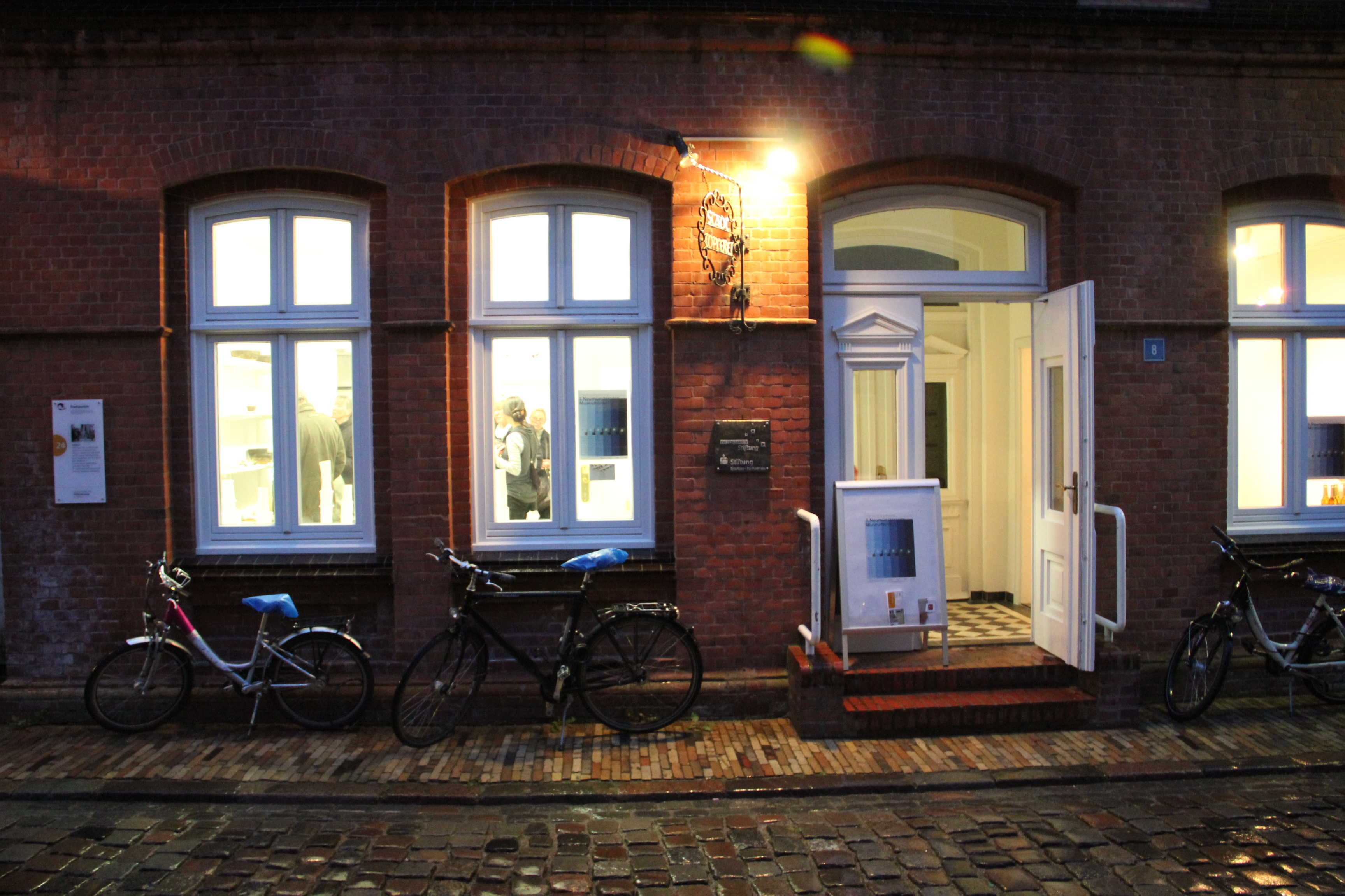 Artist in Residence "Stadttoepferei Neumünster", at night